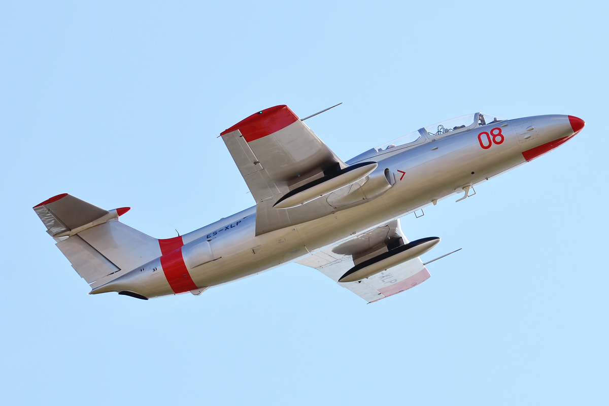 Private, ES-XLP, Aero L-29C Delfin